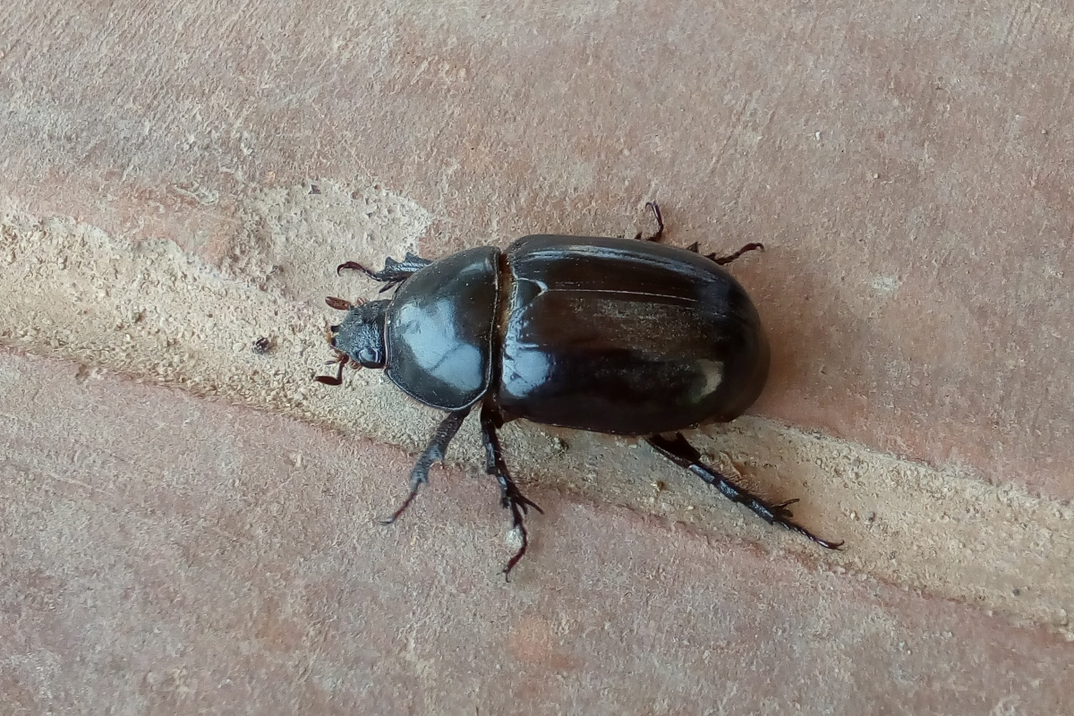 A female Megasoma elephas in Queretaro, Mexico.